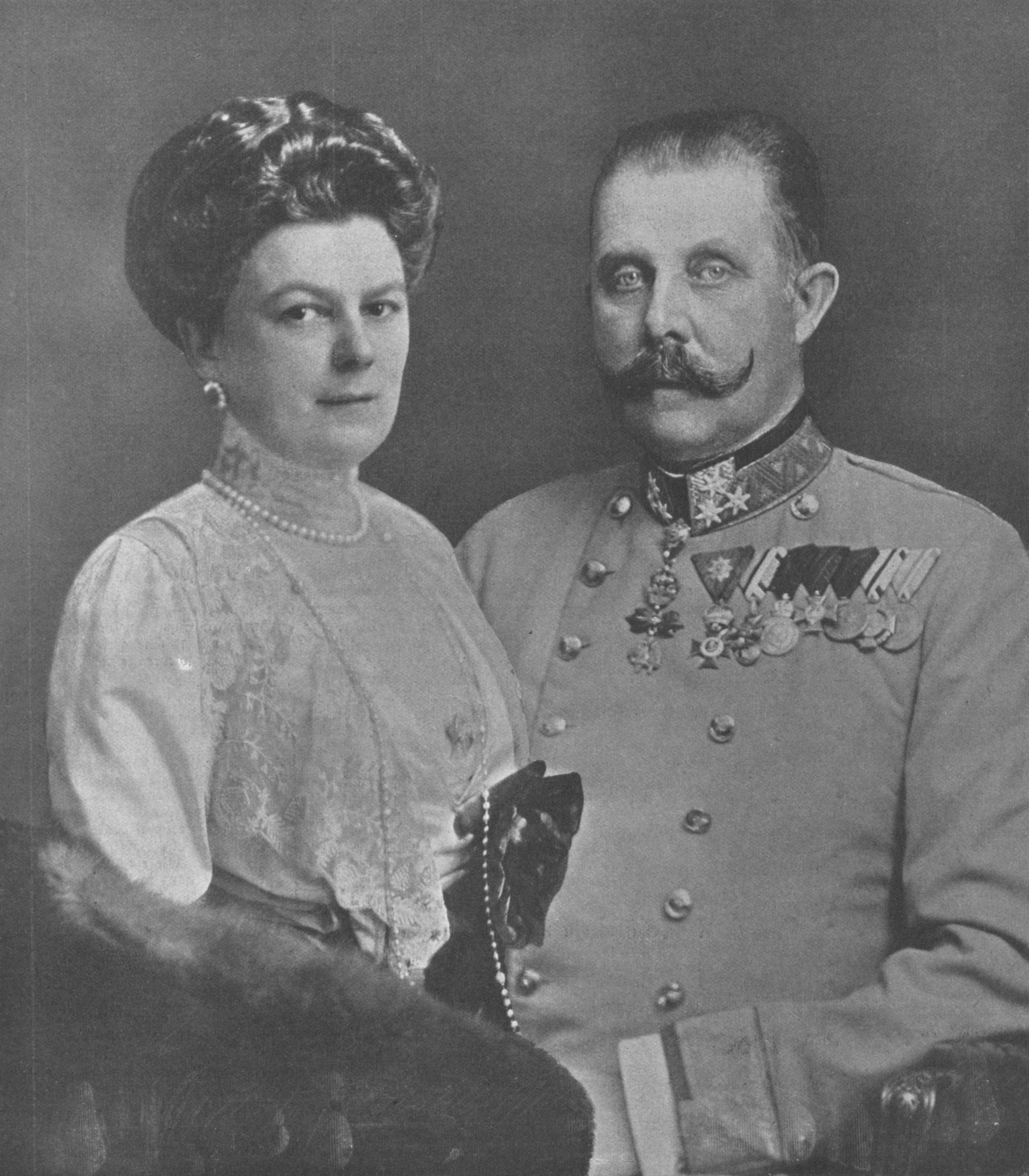 Archduke Franz Ferdinand of Austria and his wife Sophie, Duchess of Hohenberg.